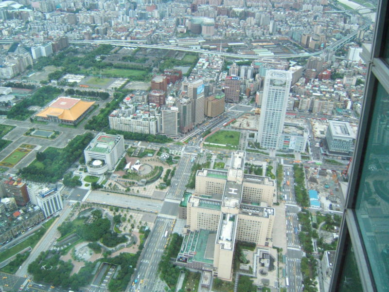 Xinyi District, Taipei（from Taipei 101 Observatory）.